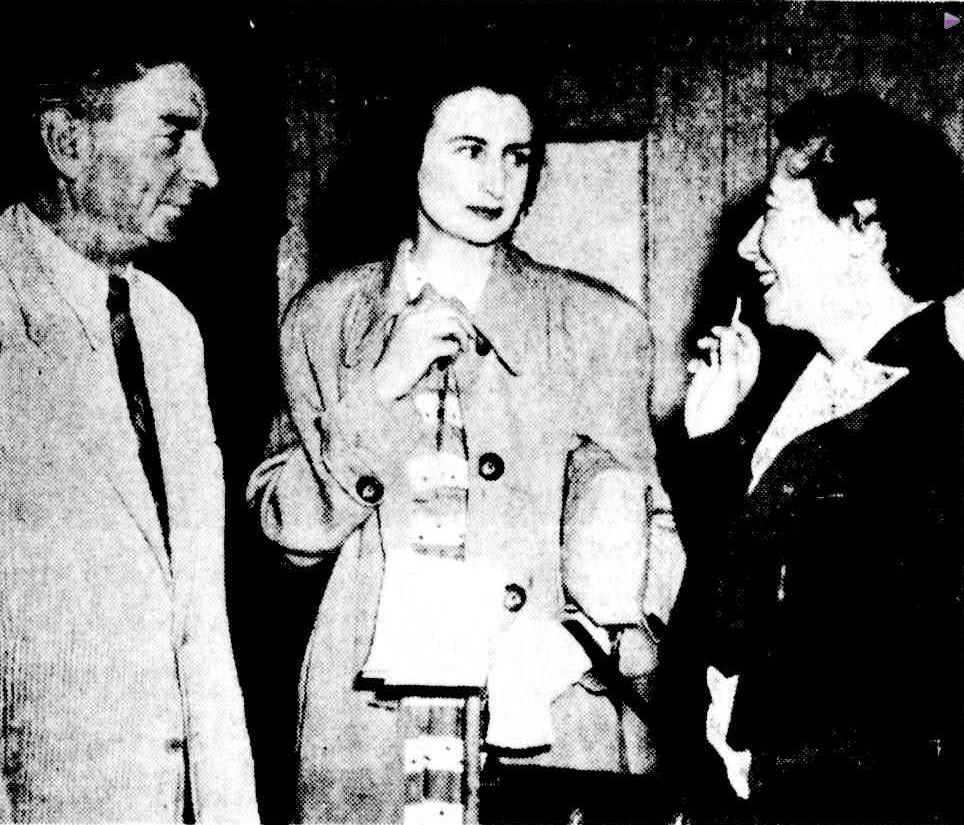 MR. MAXIMILIAN FEUERRING with poetess, ROSEMARY DOBSON (Mrs. A. T. Bolton) and MRS. IMRE SZIGETI, at the Macquarie Galleries